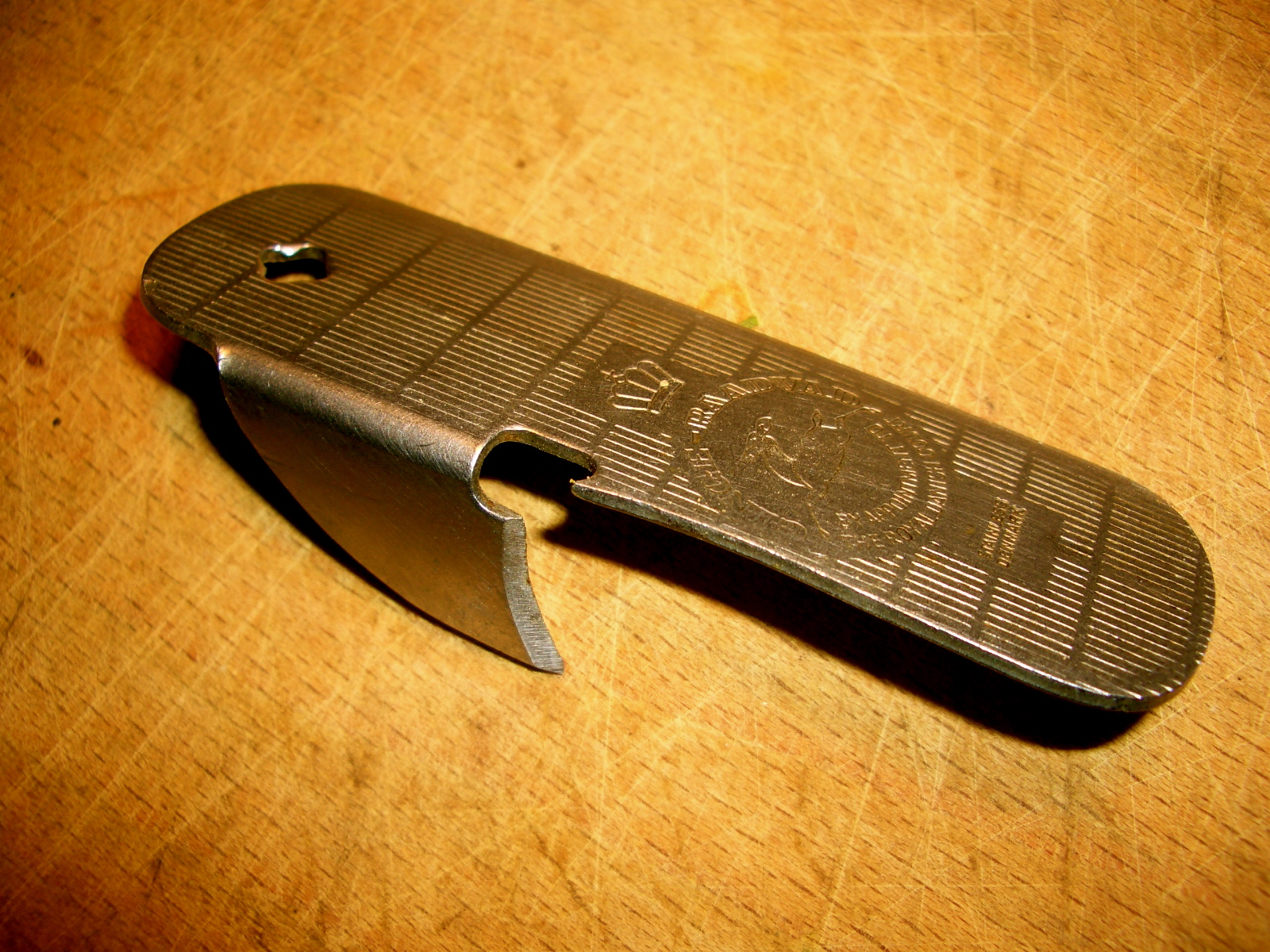 Can opener